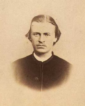 Robert Peel Bojesen (1841-1876), Danish painter